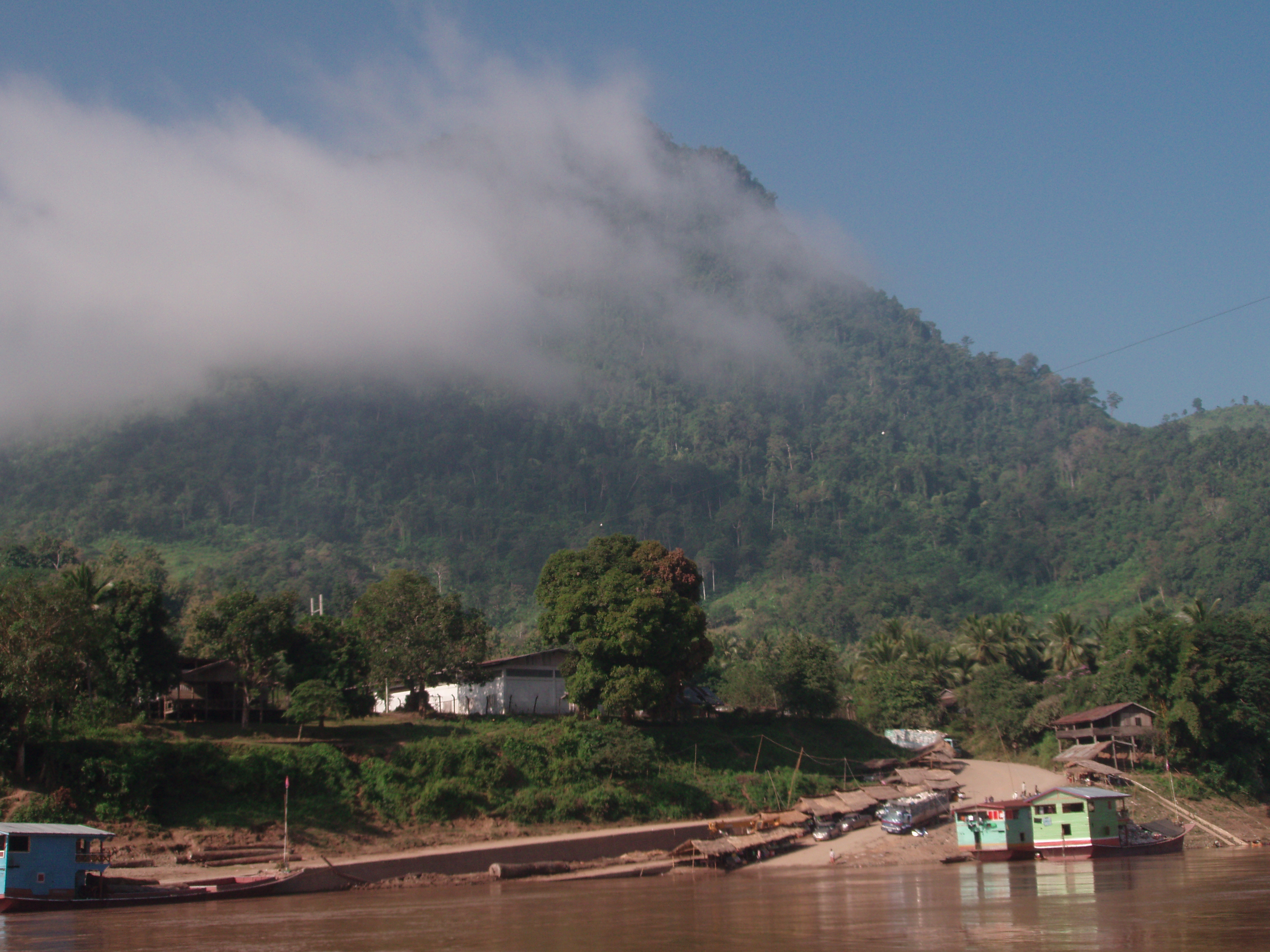 A ferry berth on the Xaignabouri side of the Mekong River. Northern Laos